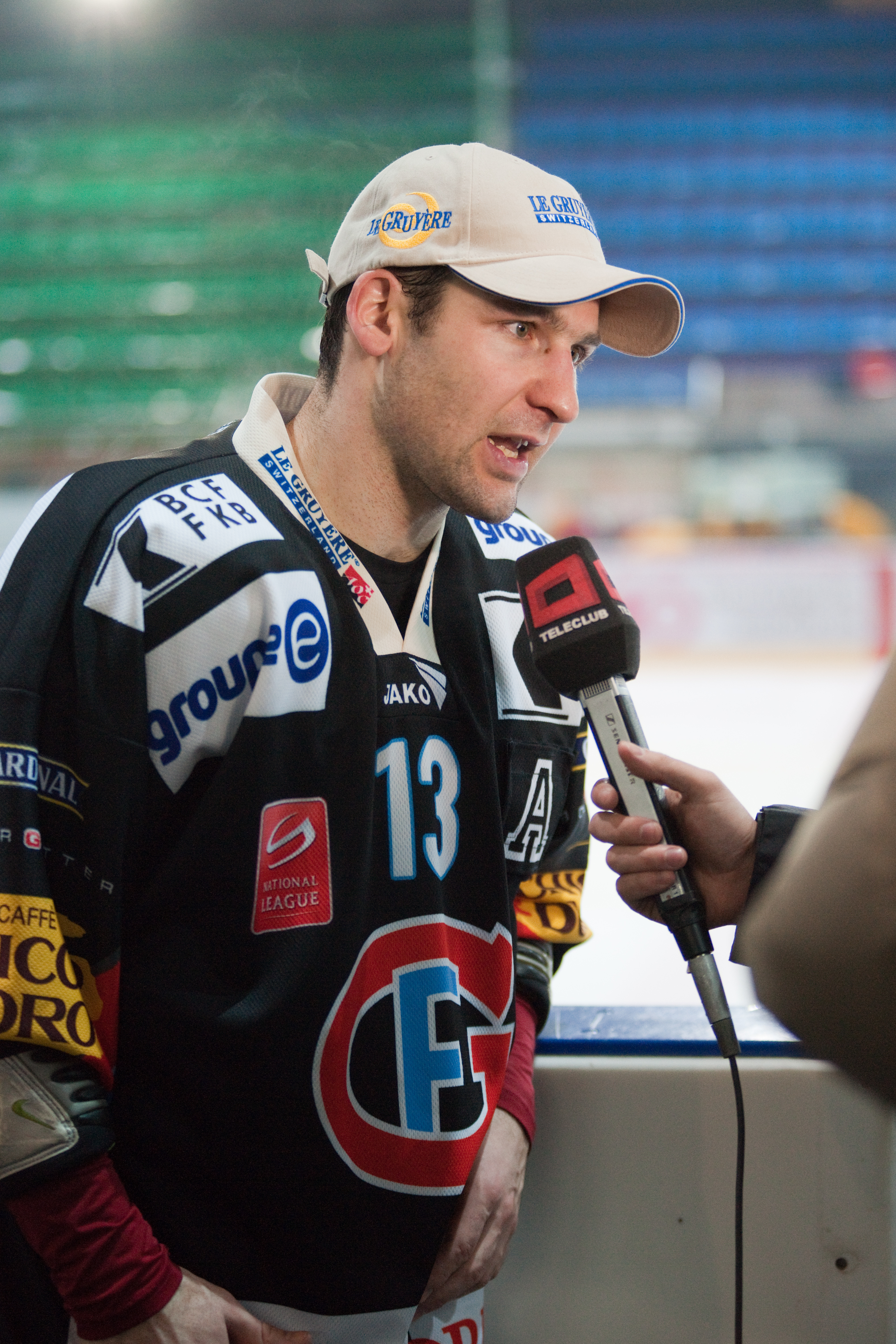 Benjamin Plüss, Fribourg-Gottéron vs. Langnau Tigers, 15th January 2010.